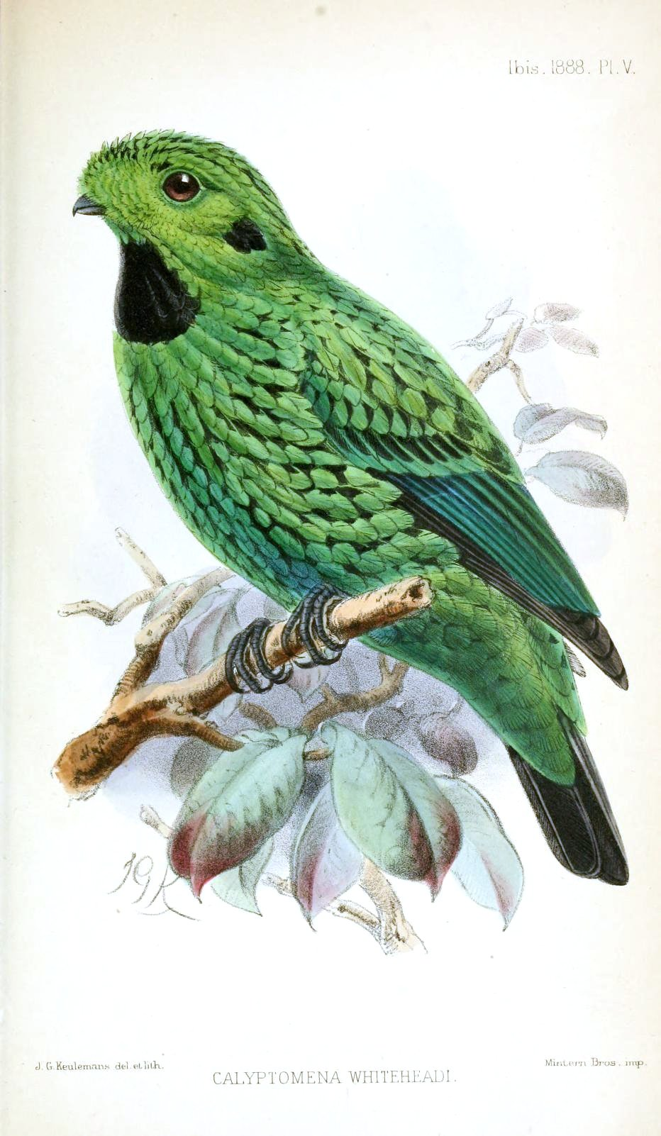 Calyptomena whiteheadi